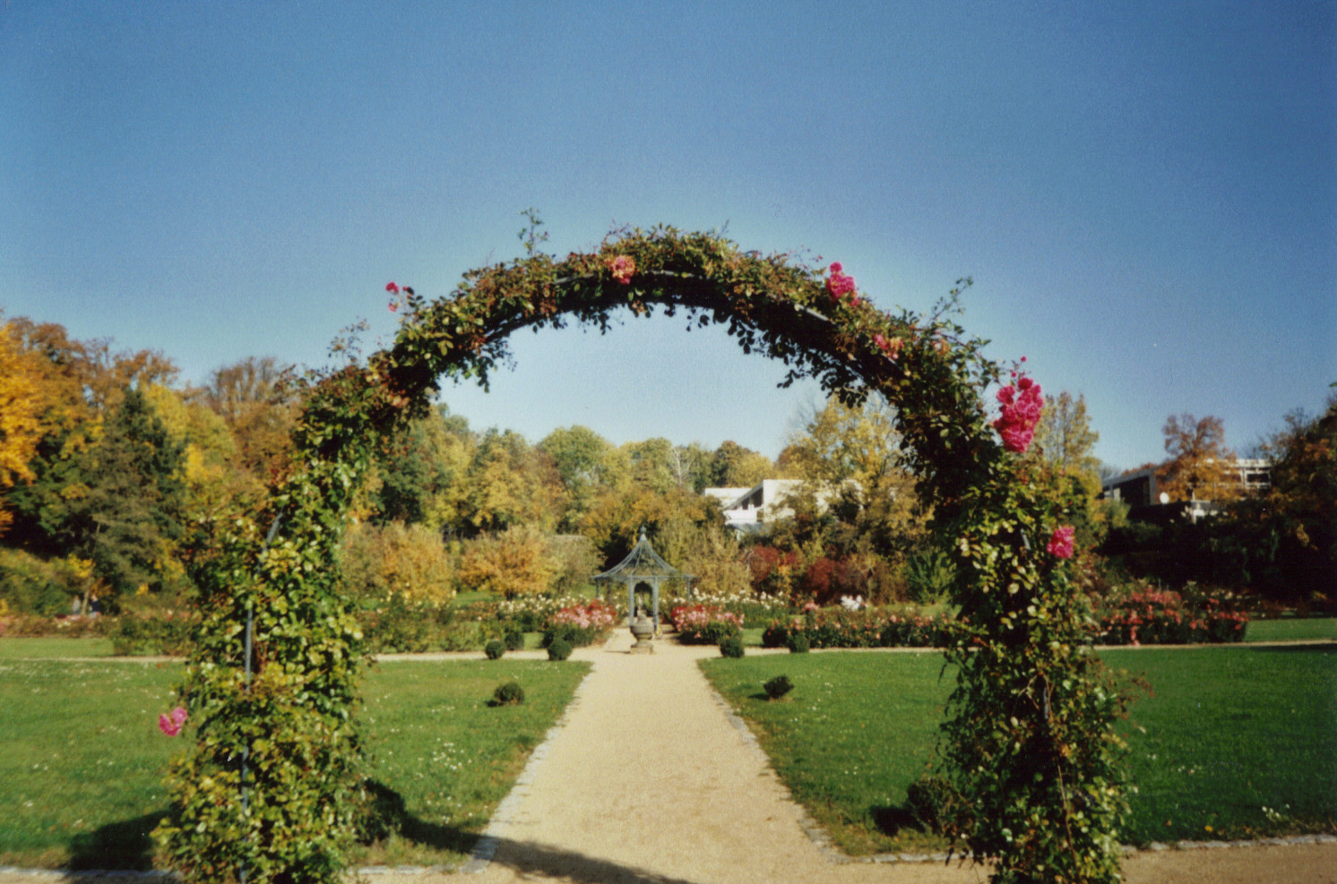 Hildesheim, Saint Magdalena's Garden, Main Path